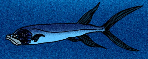 Reconstruction of the 2-meter long ichthyodectid Gillicus arcuatus of the Late Cretaceous Western Interior Seaway.